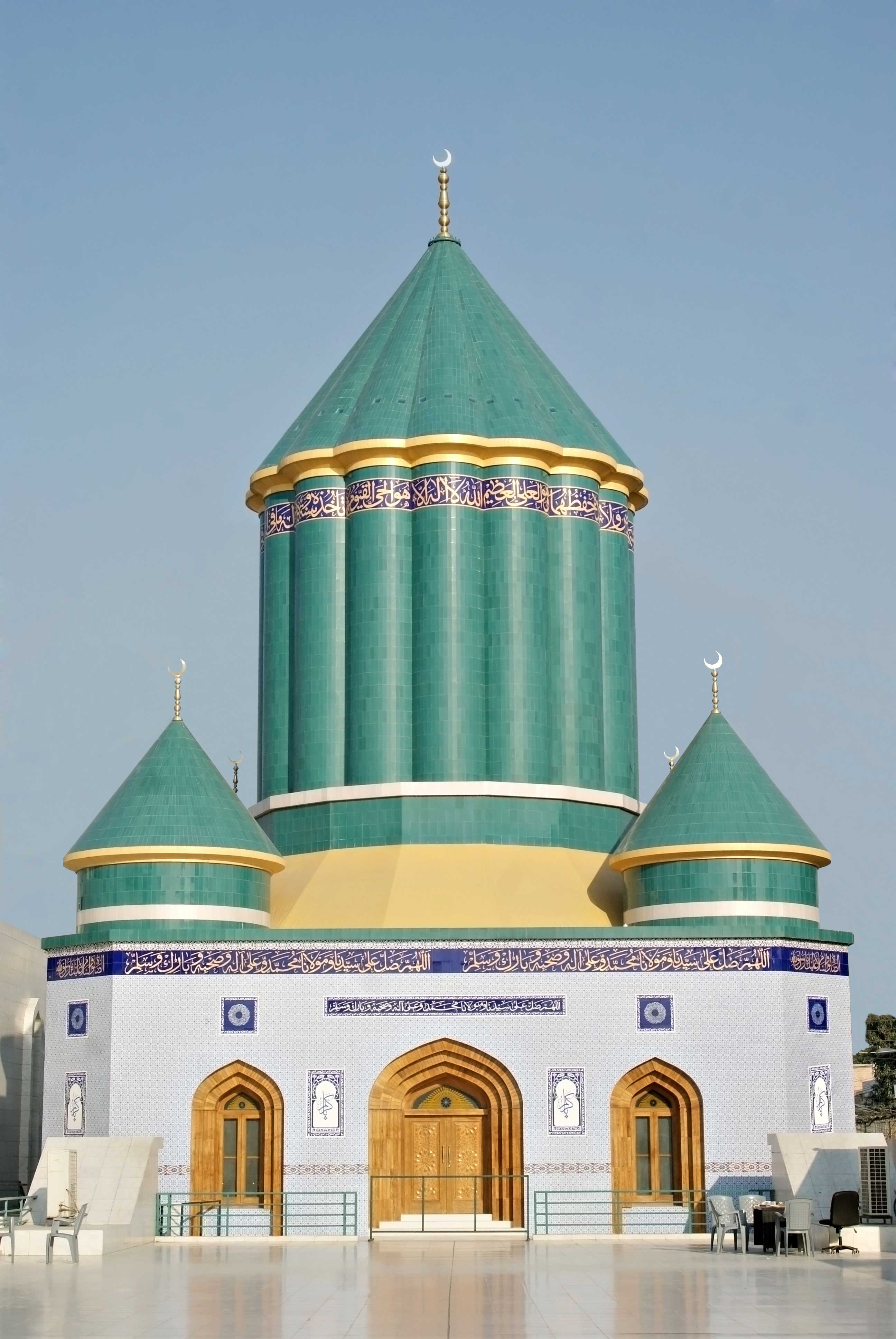 Licensing Policy about Wikipedia This is to clarify that all contents and images of this website can be used with reference of this website on Wikipedia under the free license: Creative Commons Attribution-Share Alike 4.0 International.